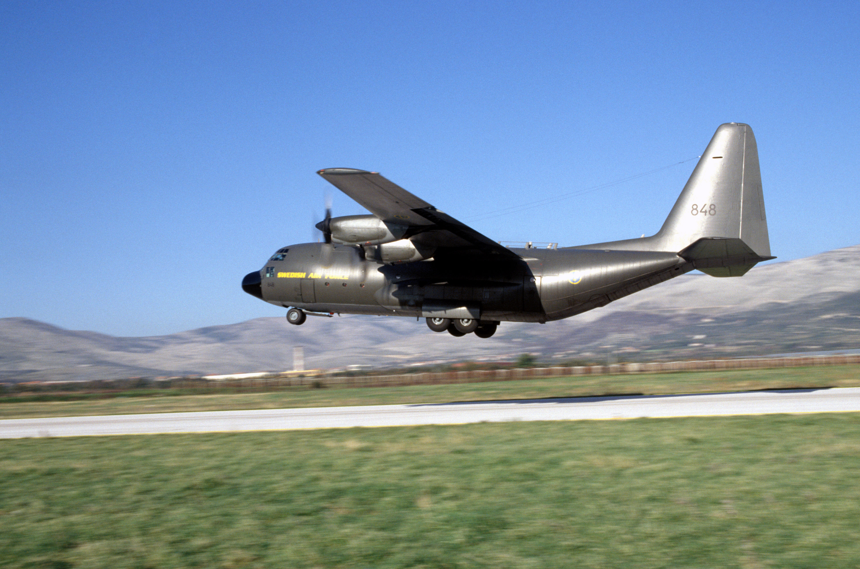 A Swedish Air Force C-130 takes off from Aerodrom Split.